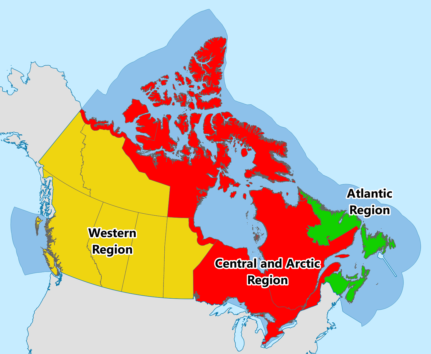 Map of the three Canadian Coast Guard Regions: the Pacific Region, the Central and Arctic Region and the Atlantic Region.